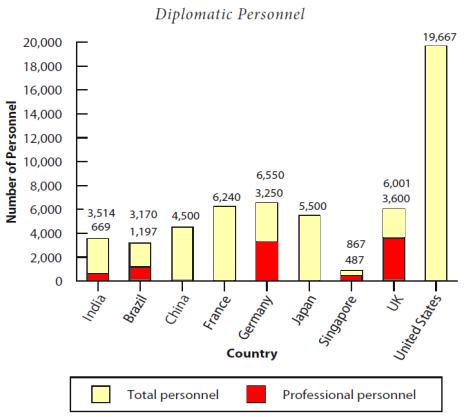 Indian Diplomatic Personnel